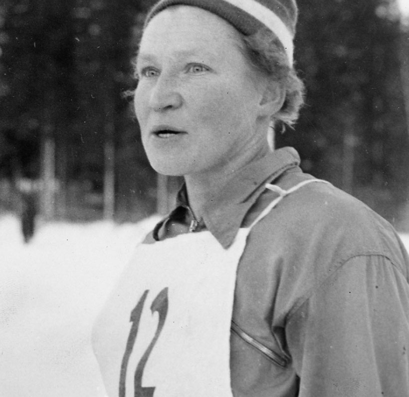 Photograph of the Finnish skier Siiri “Äitee” Rantanen (1924–).